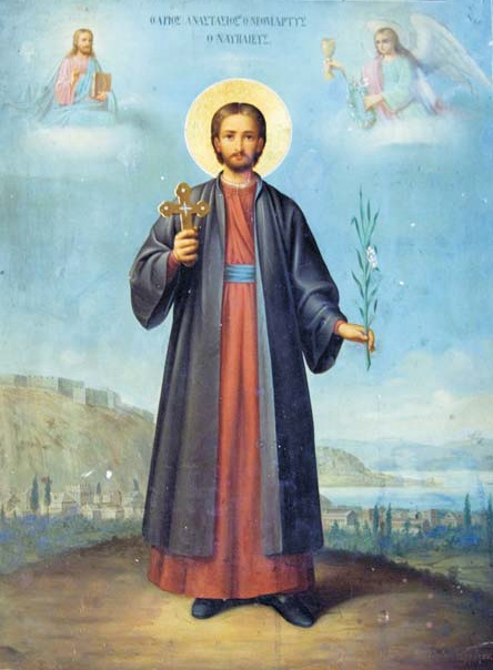 Saint Athanasius of Nafplion Icon from Nativity Church in Nafplion by Christodoulos Mattheou, 1895